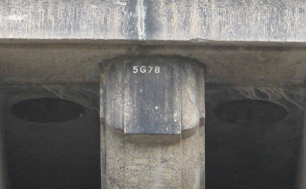 u numbered stone at London Bridge in Lake Havasu City.